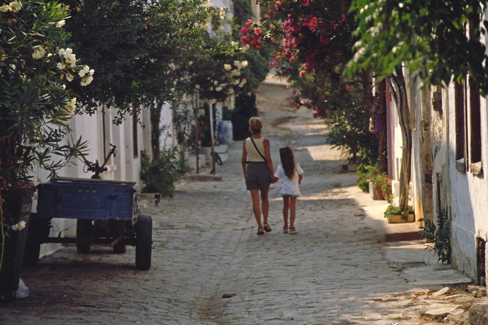 Bozcaada, Turkey. Scanned 35mm film